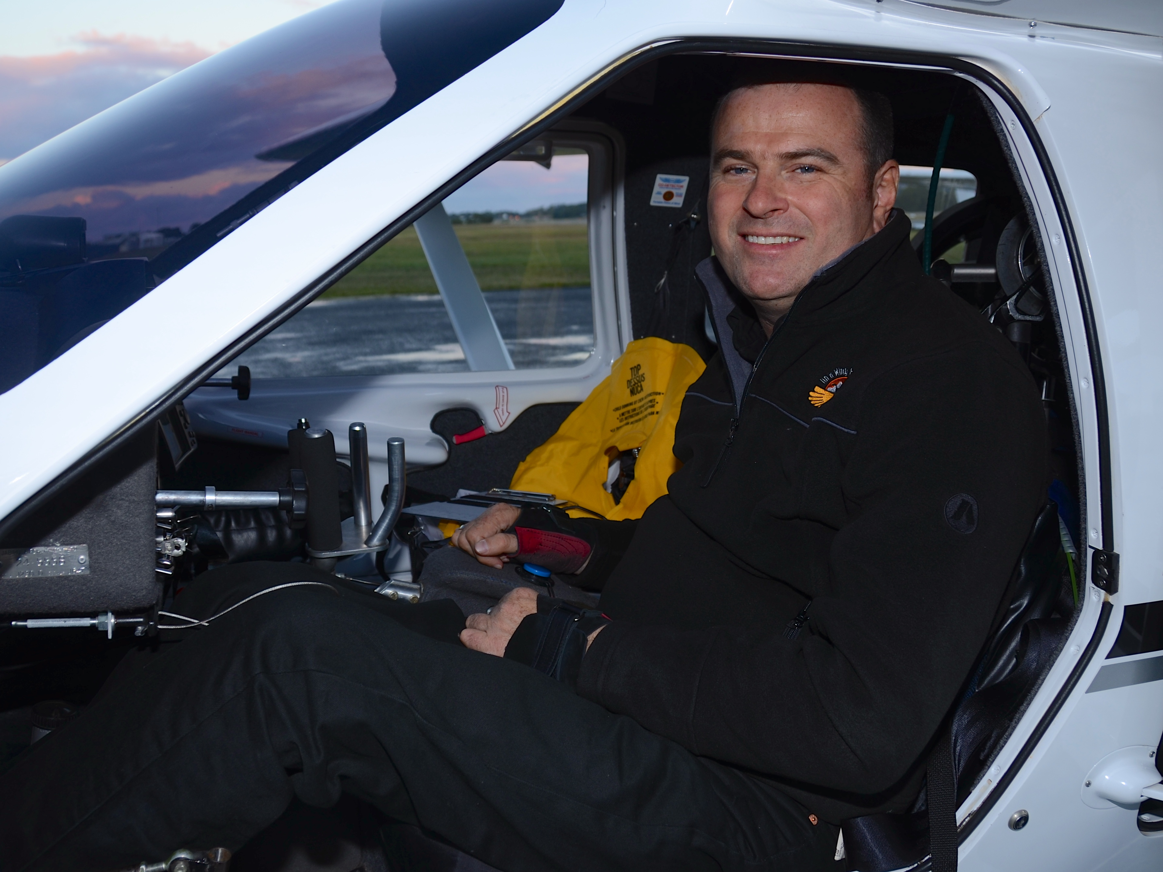 David Jacka as he lands into Wynyard, Tasmania, first day of the On a Wing and a Chair around Australia flight. He sits in his Jabiru J-230 aircraft. 29th April 2013.